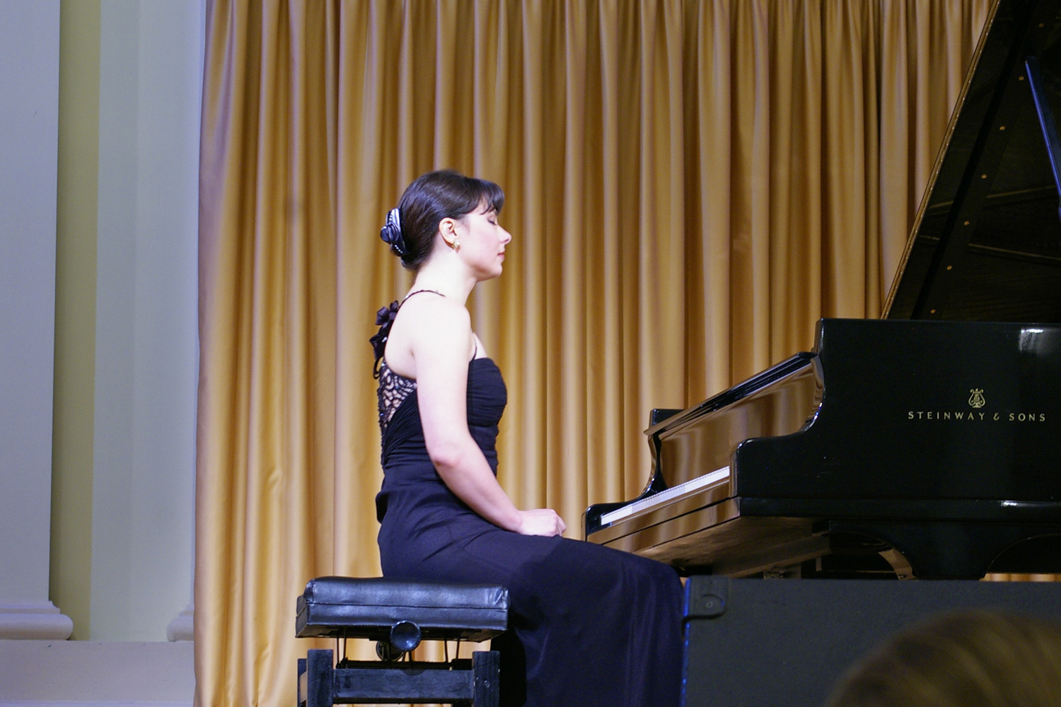 The pianist Catherine Mechetin at the Tver Regional Philharminic Society.